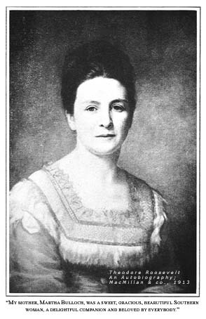 Depicted person: Martha Bulloch Roosevelt – American socialite and mother of President Theodore Roosevelt